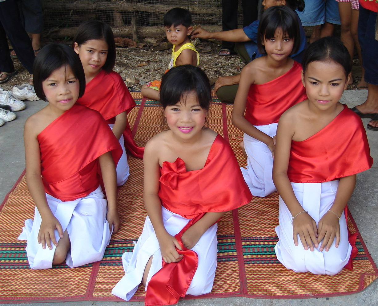 Unknown description child in Thai folk dancer local group